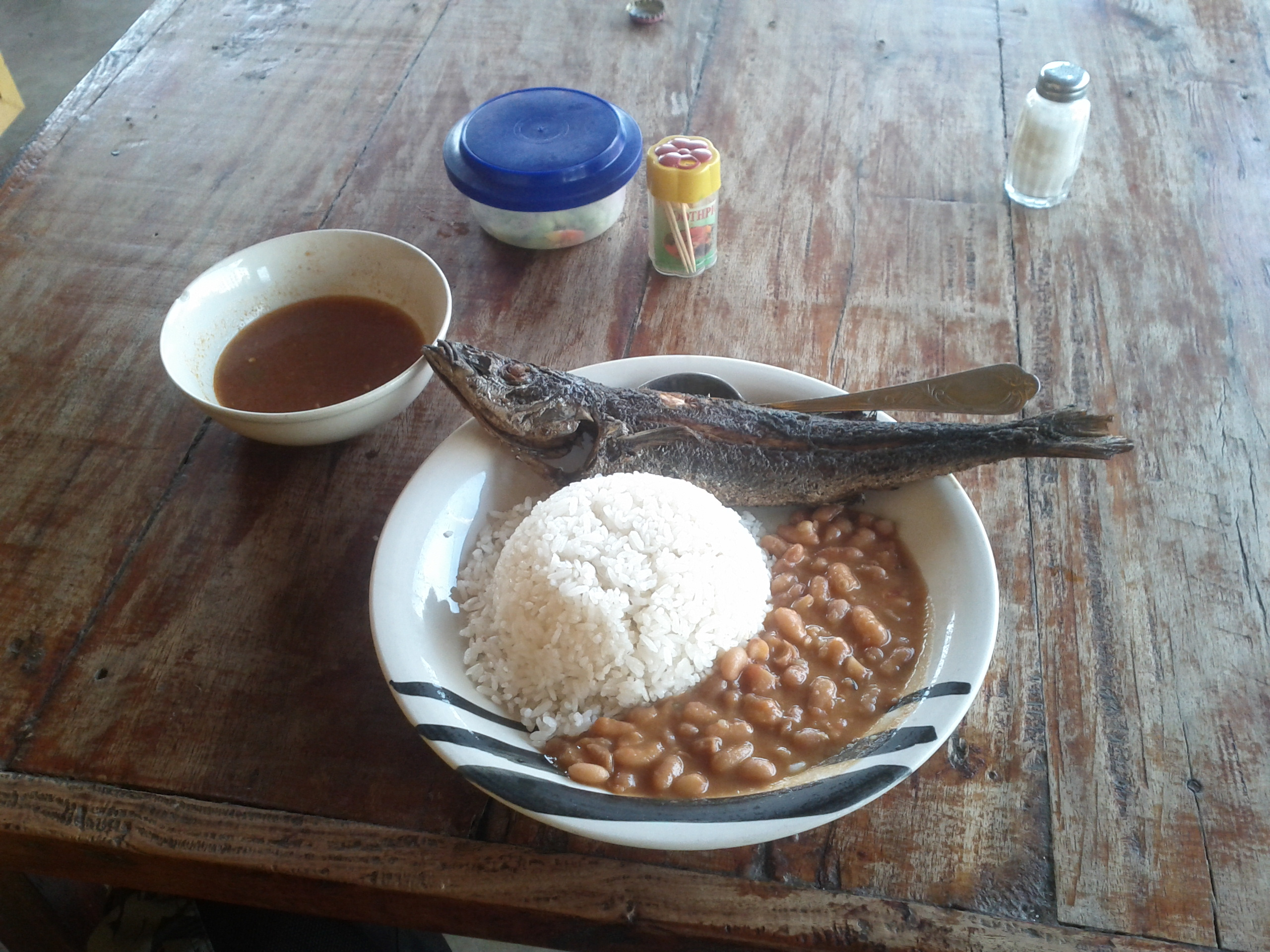 Fish from lake Tanganyika with rice and beans served in a restaurant in Kigoma, Tanzania This is an image of food from Tanzania